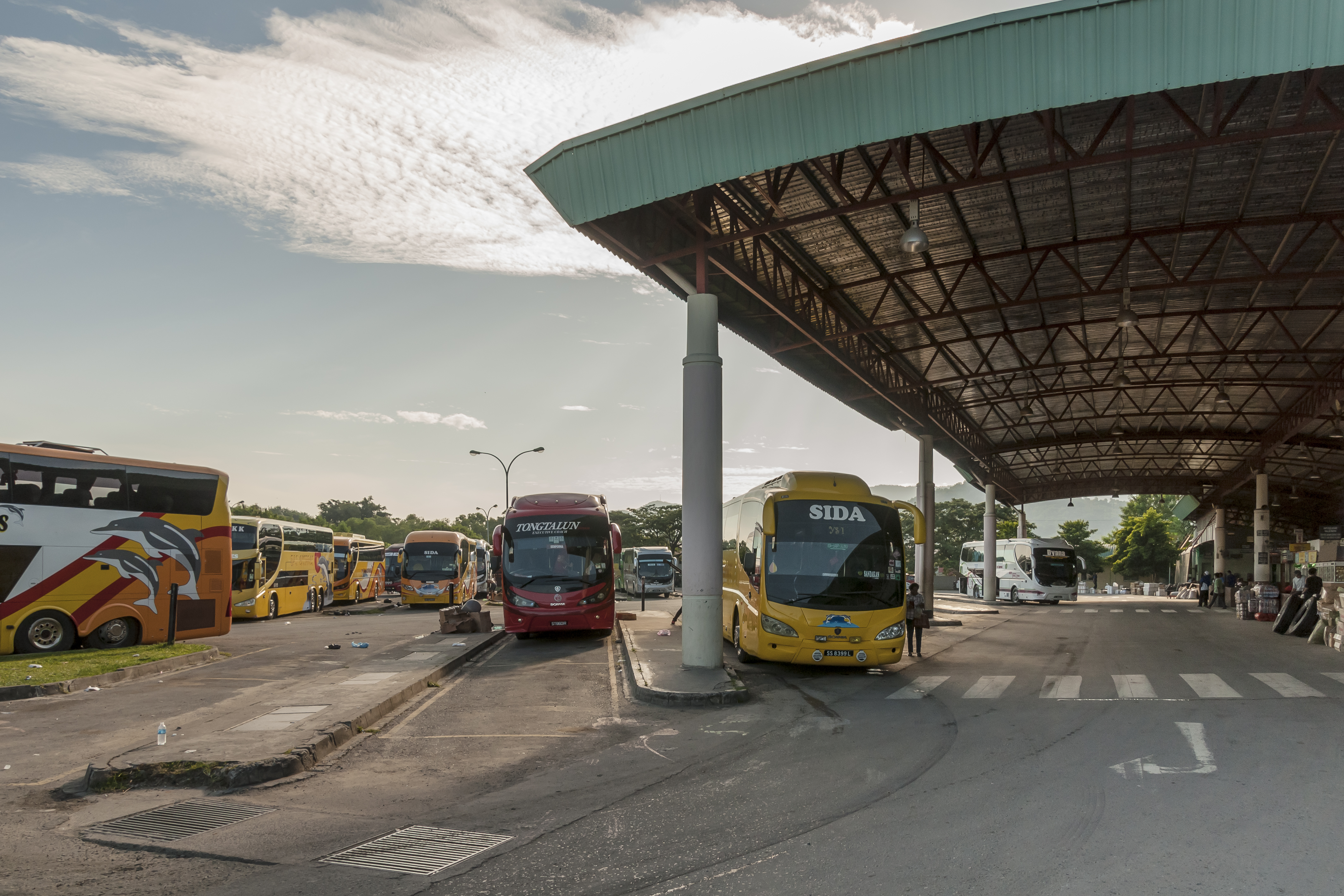 Inanam, Sabah: City Bus Terminal (North) - Terminal Bas Bandaraya (Utara)